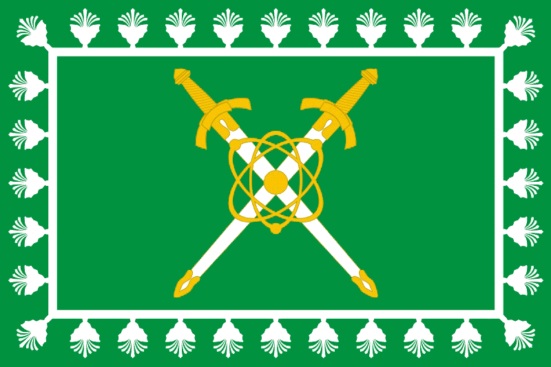 Flag Lesnoy, Sverdlovsk Region, Russia